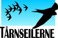 logo Tårnseilerne (Swift)